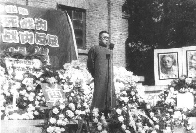 Hu Shih giving a speech as the president of National Peking University